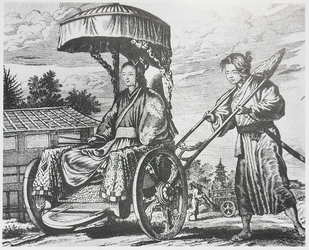 "The rich carriage of Taikōsama (court) lady-in-waiting". Lach & van Kleyn express their doubt about the "authenticity" of the scene depicted by the Dutch artist: both the appearance of the carriage itself, and the fact that a Dutchman would even be allowed to look at the court lady and sketch a picture of her.